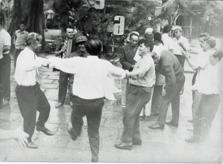 New Year 69’ celebration by the Soviet fighter pilots, assigned to Vietnam.